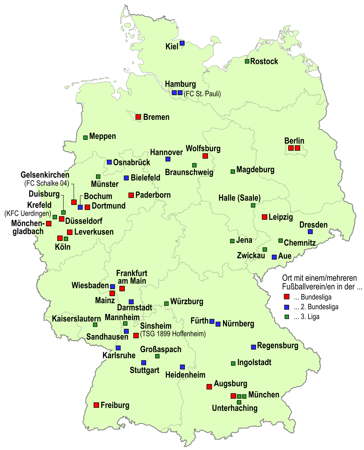 Map of all association football clubs in Germany's three nationwide leagues: 1st Bundesliga (red), 2nd Bundesliga (blue) and 3rd league (green), as of season 2019/2020.